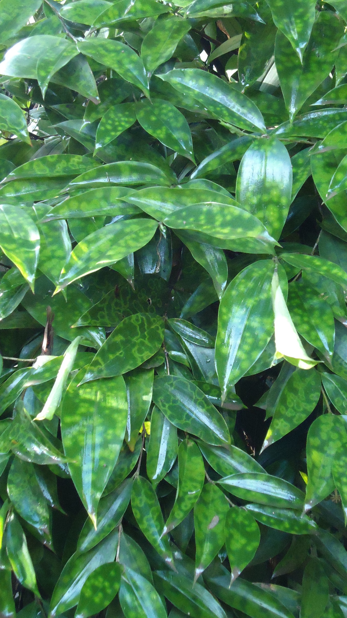 Gold Dust Dracaena Dracaena surculosa